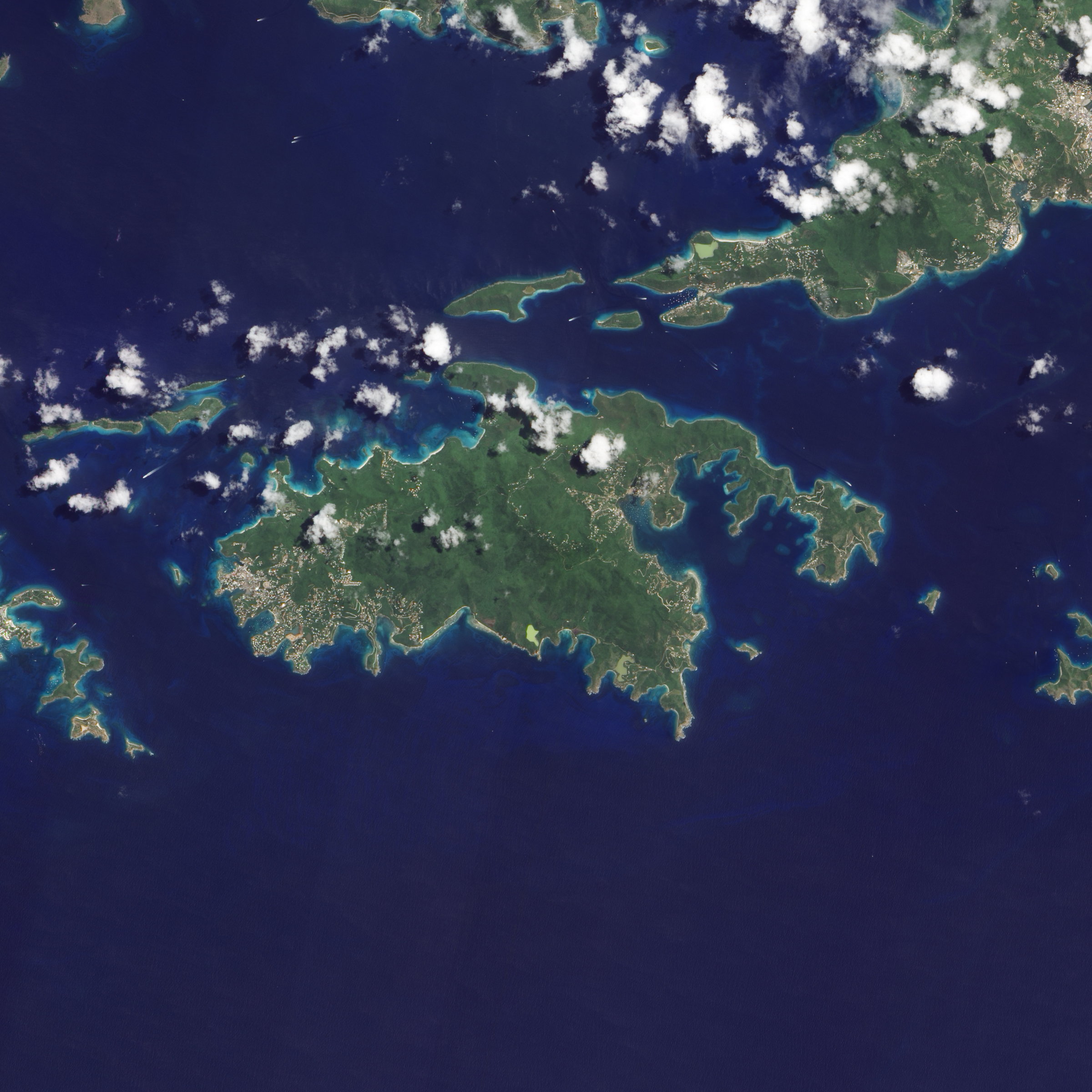 Natural-colour image of the Island of St. John island in the United States Virgin Islands. The BVI are in the upper portion on the photo. Settlements—marked by curving roads and light roofs—line the irregular coastline. The pinpoints of white in Coral Bay are probably boats. The island’s interior is carpeted with varying shades of green. Temperatures vary little throughout the year, ranging between the mid-20s to mid-30s Celsius. Although the vegetation appears lush, much of it is second-generation growth, according to the U.S. National Park Service (NPS). During the colonial period, large swaths of the island were clear-cut to accommodate sugar cane production.